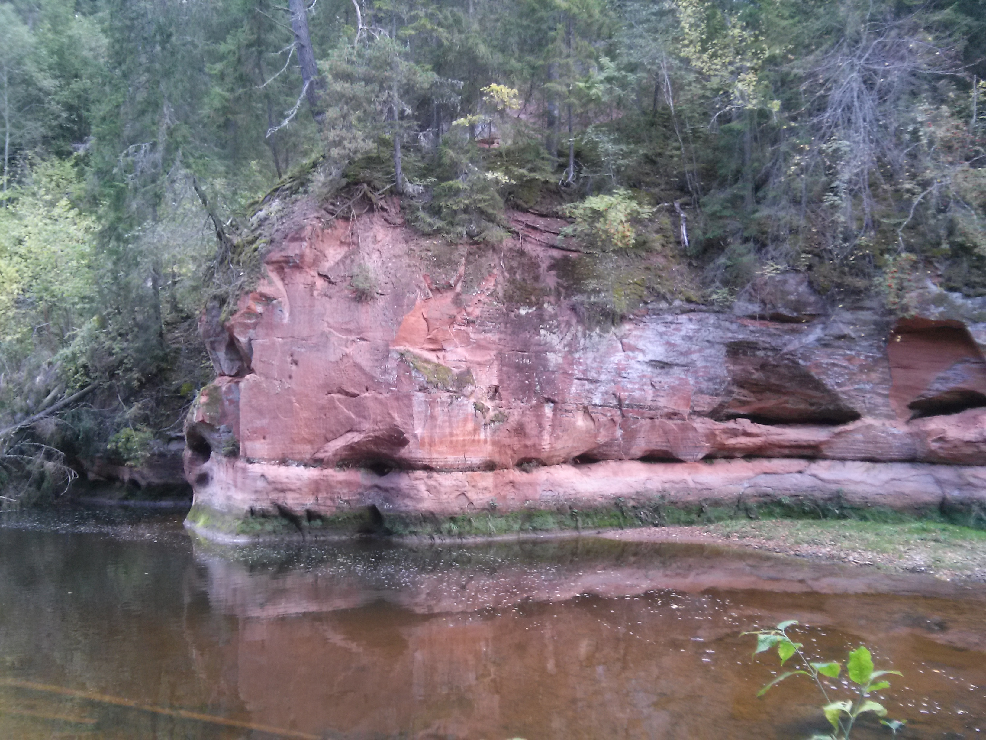 The part of Vanagu cliff, that looks simillar to the famous Zvārtes rock